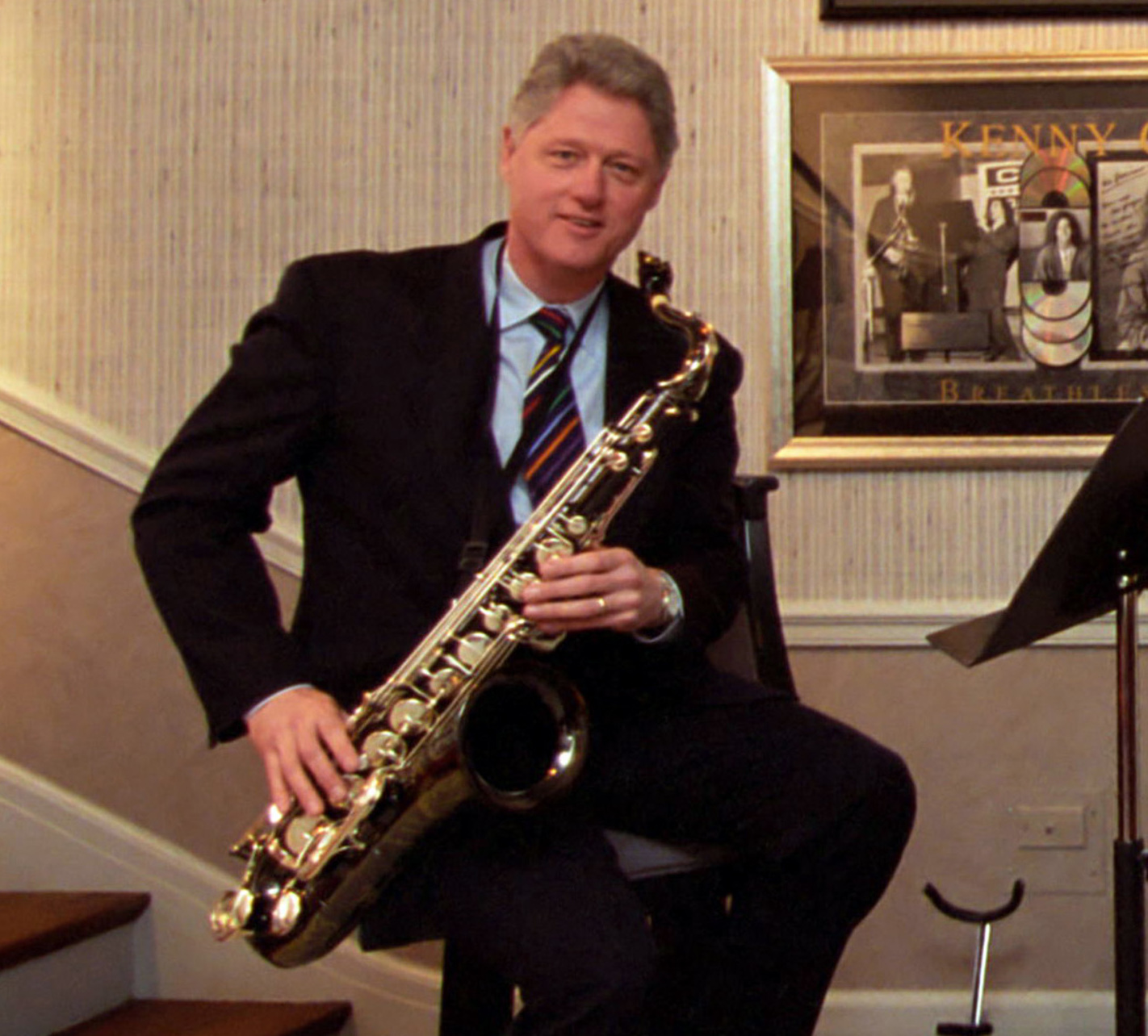 President Clinton practices with his saxophone in the newly decorated Music Room in the Residence